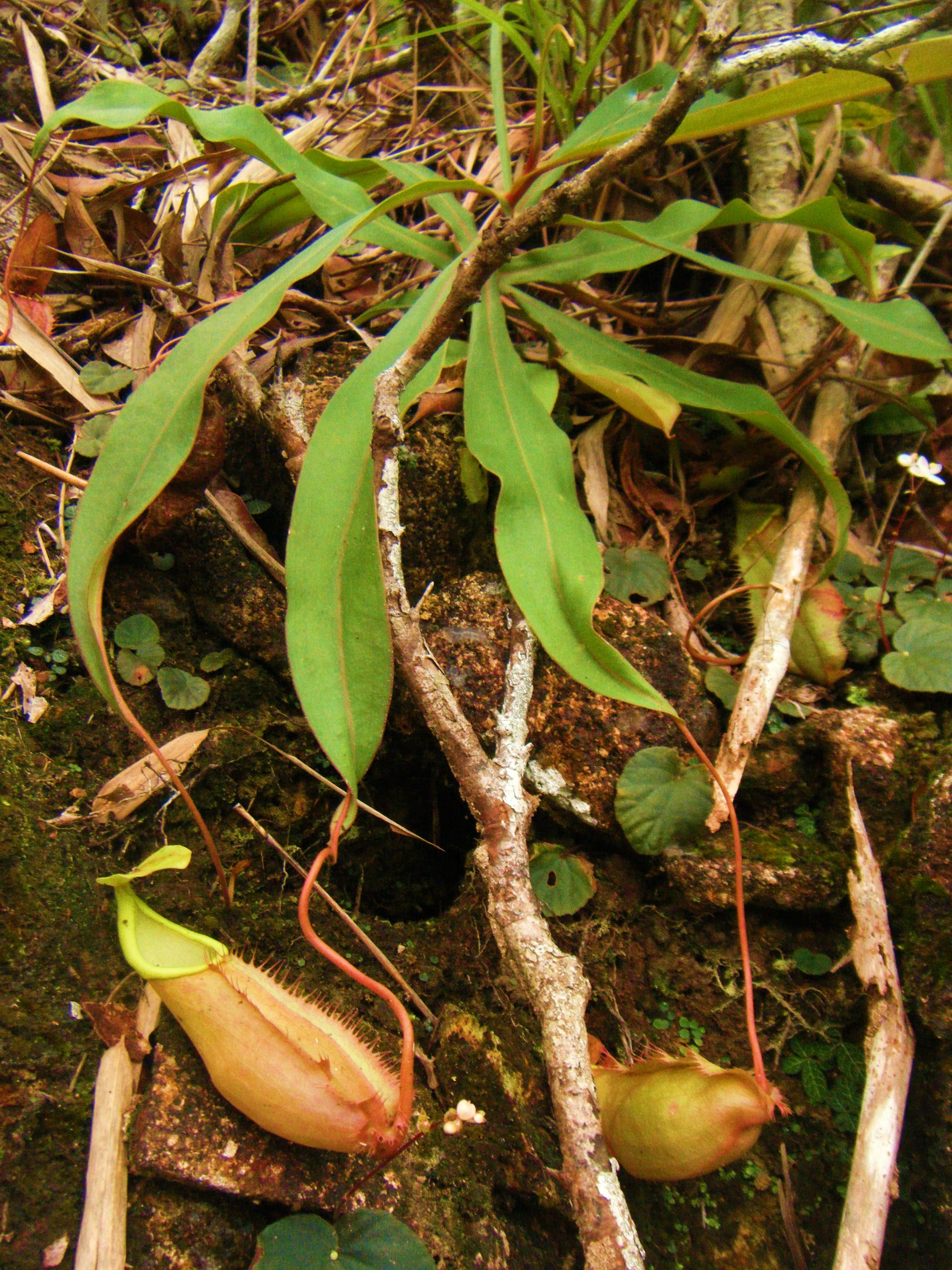 Nepenthes chang rosette plant, Thailand